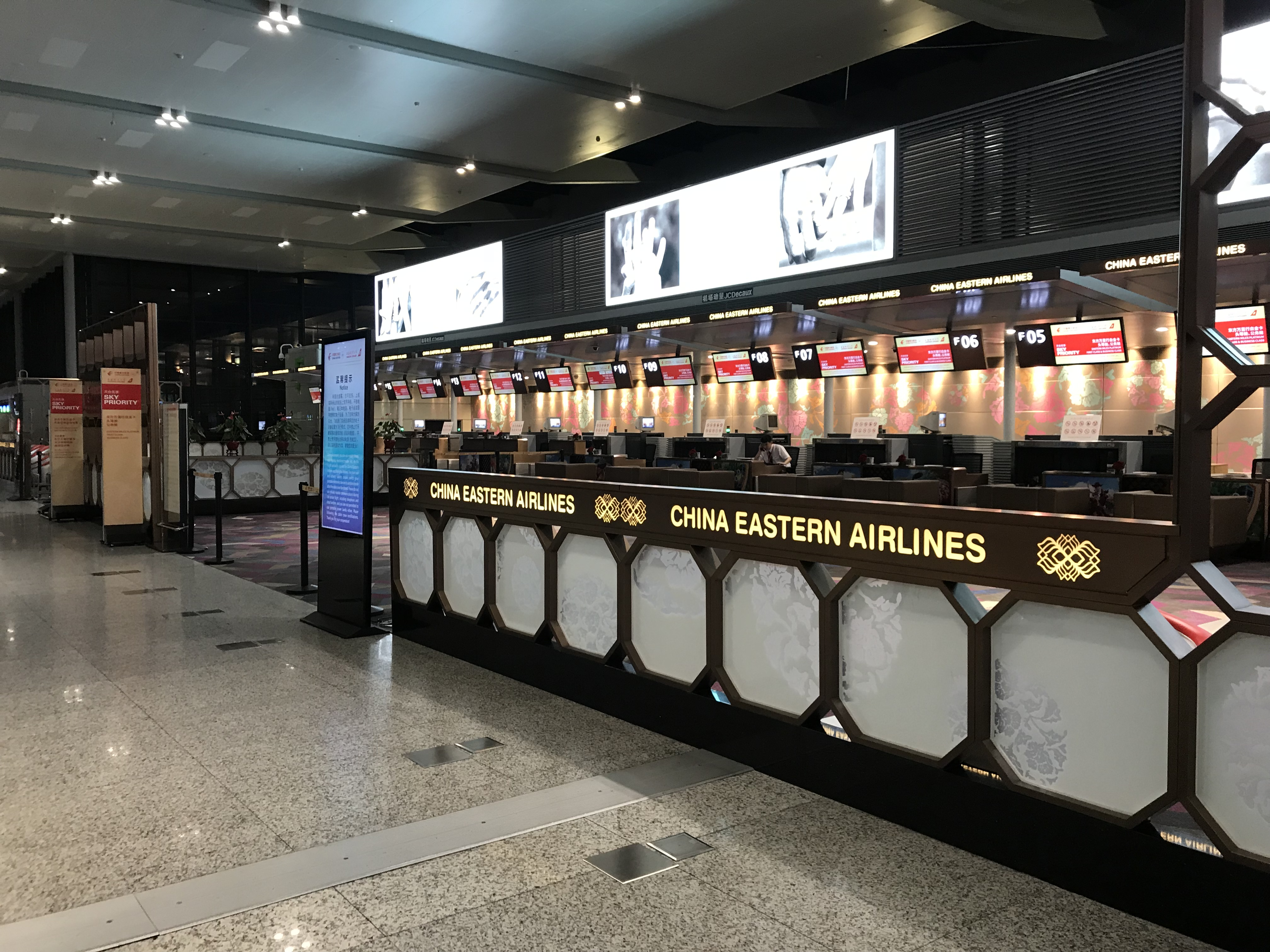 201806 MU & FM Sky Priority Check-in Area at Area E of SHA T2